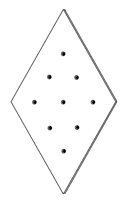 Illustration of a training template for billiard balls (for the game of nine-ball in this case).